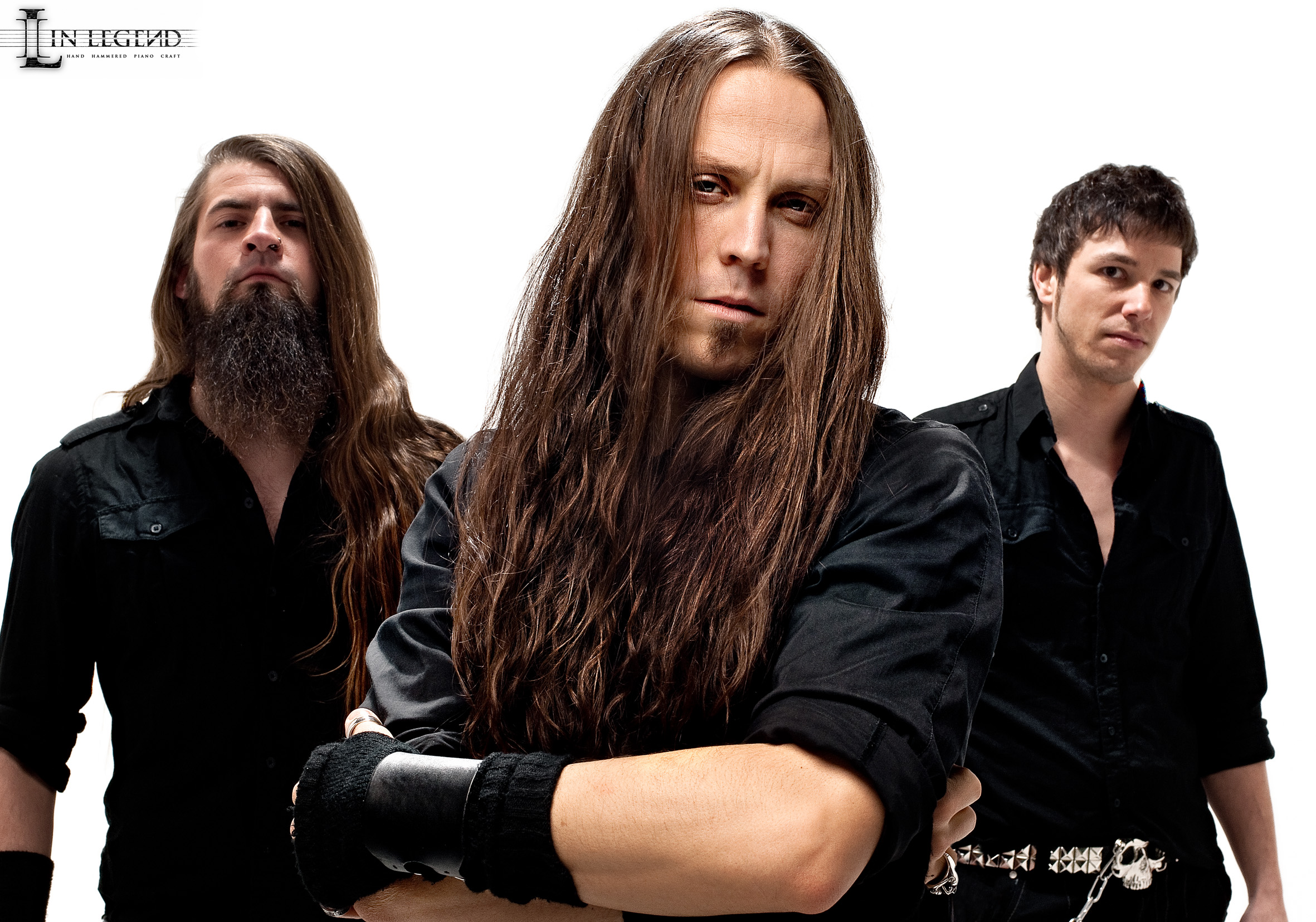 Official Promo photo of Piano Metal Band In Legend